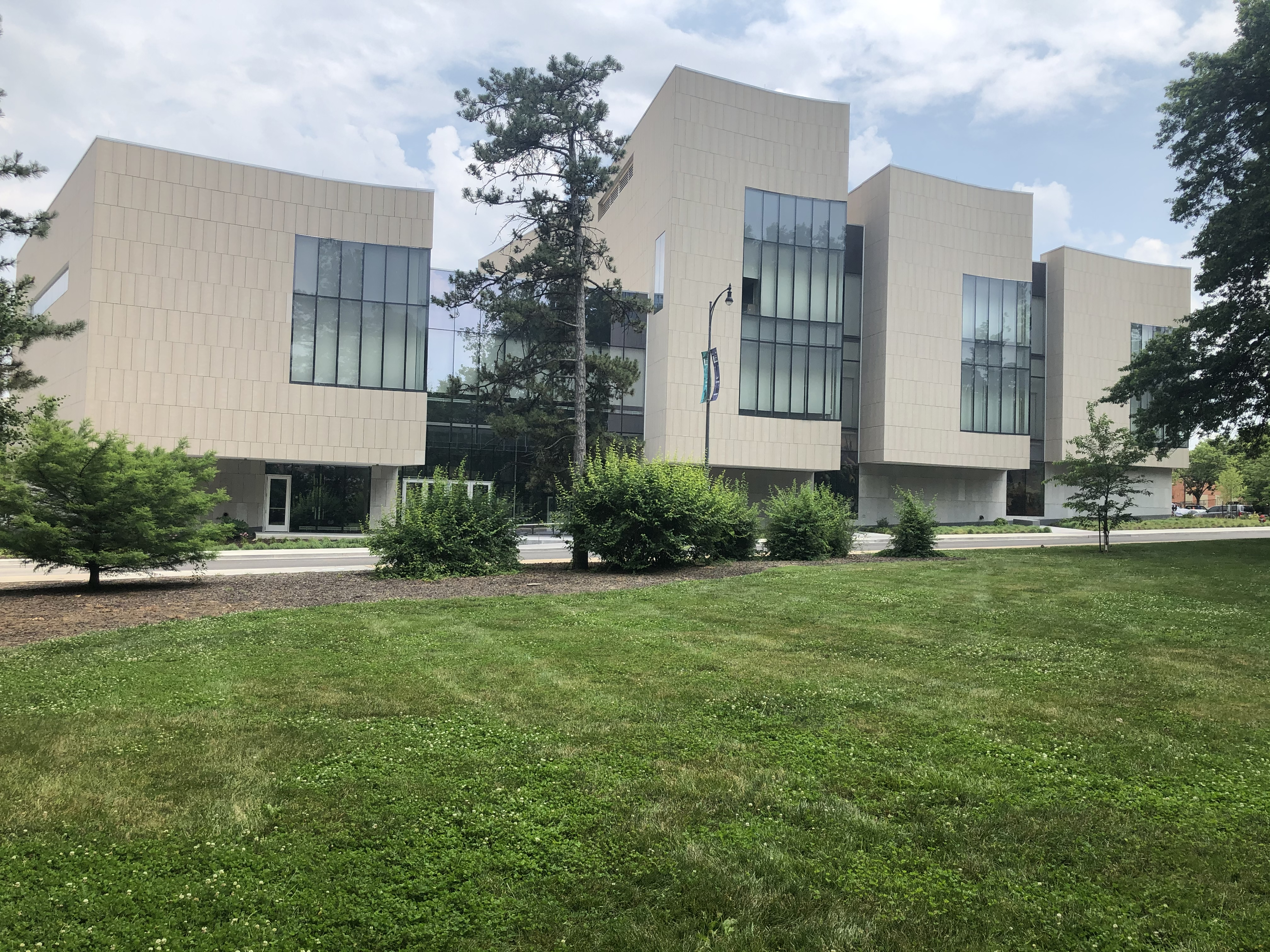 The South side of the Center for Missouri Studies and the State Historical Society of Missouri. Taken from Peace Park on Juneteenth 2020.